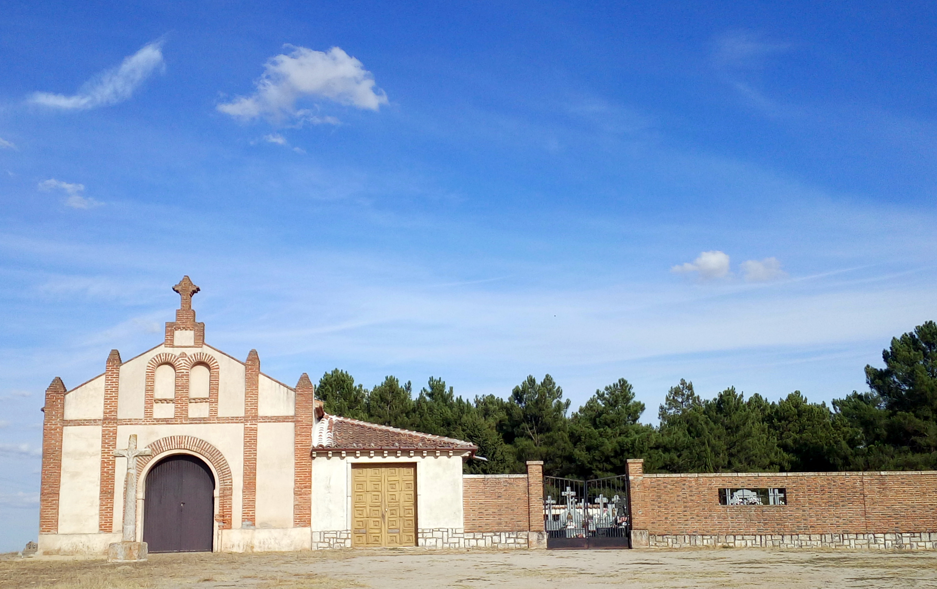 Hermitage and cemetery of San Martín y Mudrián, Segovia, Spain.